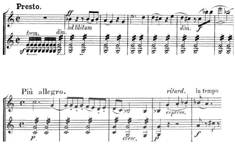 A comparison between the introductory sections of the last movements of Mendelssohn's opus 13 string quartet, and Beethoven's opus 132 quartet.